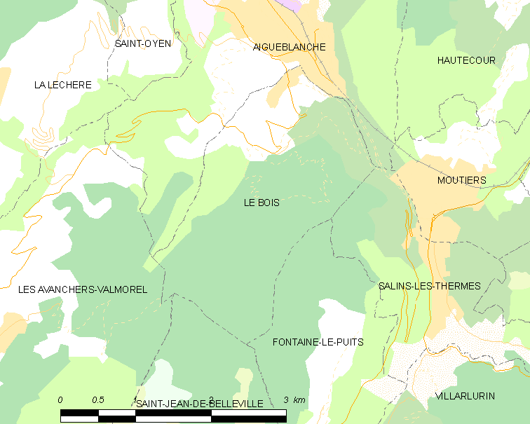 Map of French municipality